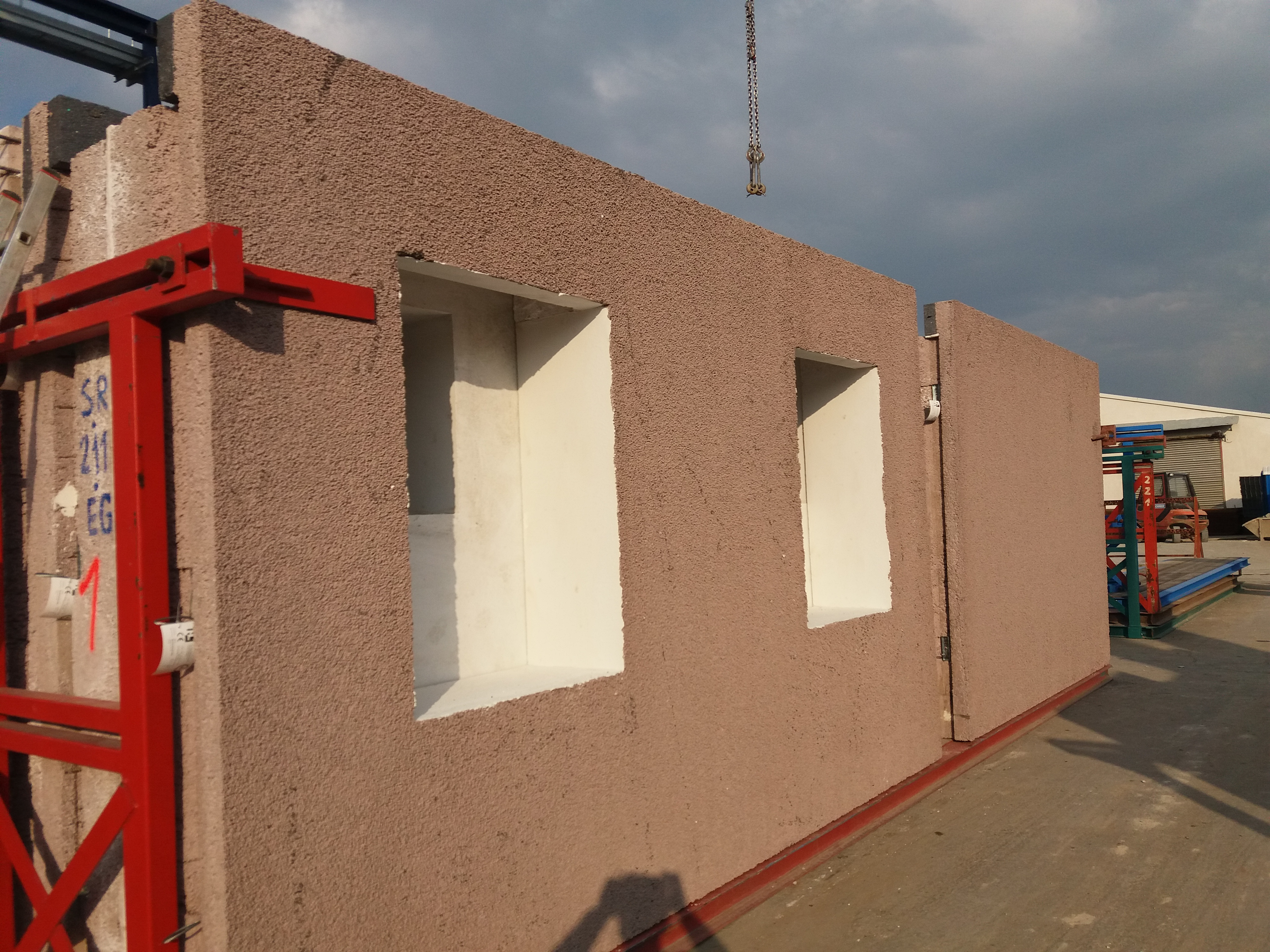 Massive, haufwerksporige Blähton Massivwände warten nach der Produktion in Spezialgestellen versandfertig am Lager des Herstellers.